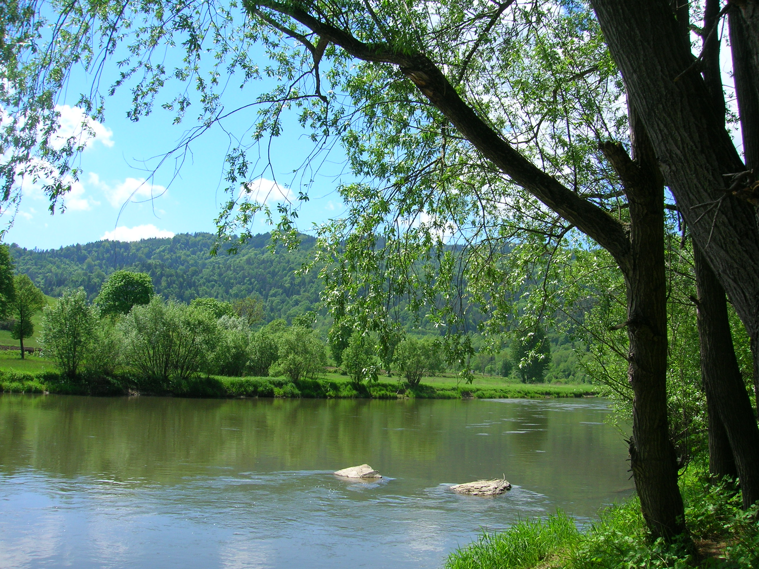 the river Poprad where it marks the frontier between Poland and Slovakia